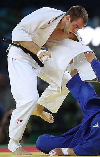 2016 Summer Olympics Judo, August 9